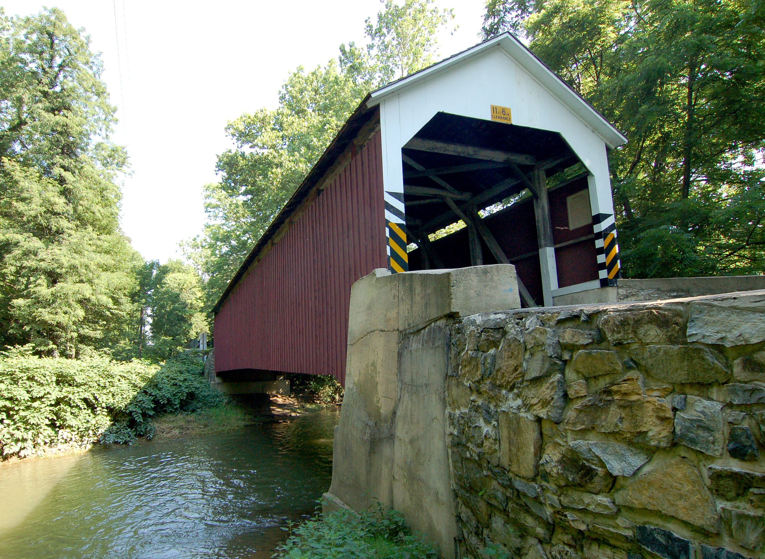 A photograph of the Siegrist's Mill Covered Bridge located in Lancaster County, Pennsylvania showing the side of the bridge.